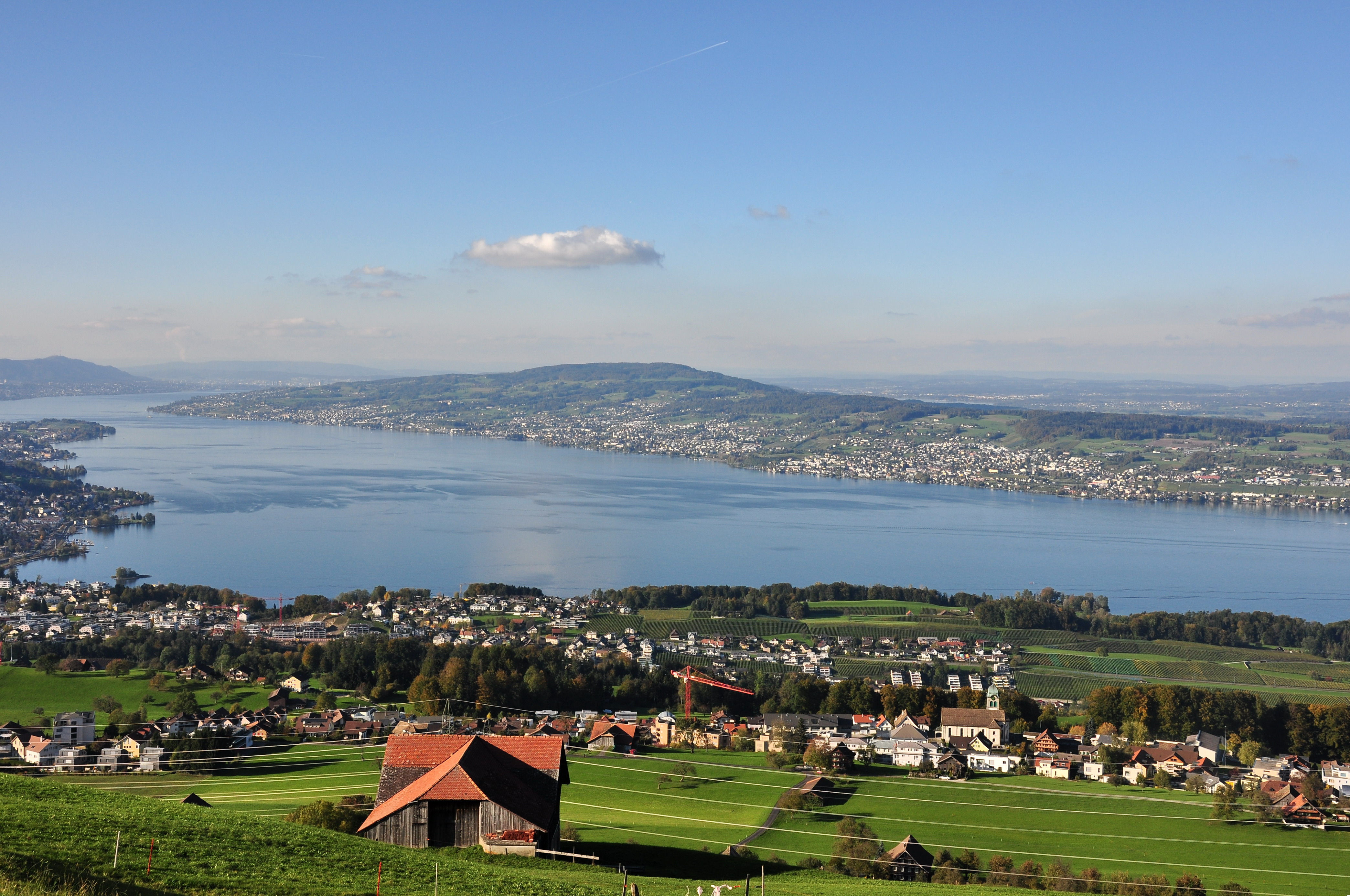 View from the Etzel mountain in Switzerland towards Etzel Kulm : Richterswil on Zürichsee lakeshore and Zimmerberg plateau, as seen from Feusisberg (Switzerland) towards Etzel mountain, (from the left) Albis chain with Felsenegg and Uetliberg mountain, Halbinsel Au and Zürichsee, Zürich in the far background, and (to the right) Pfannenstiel mountain.